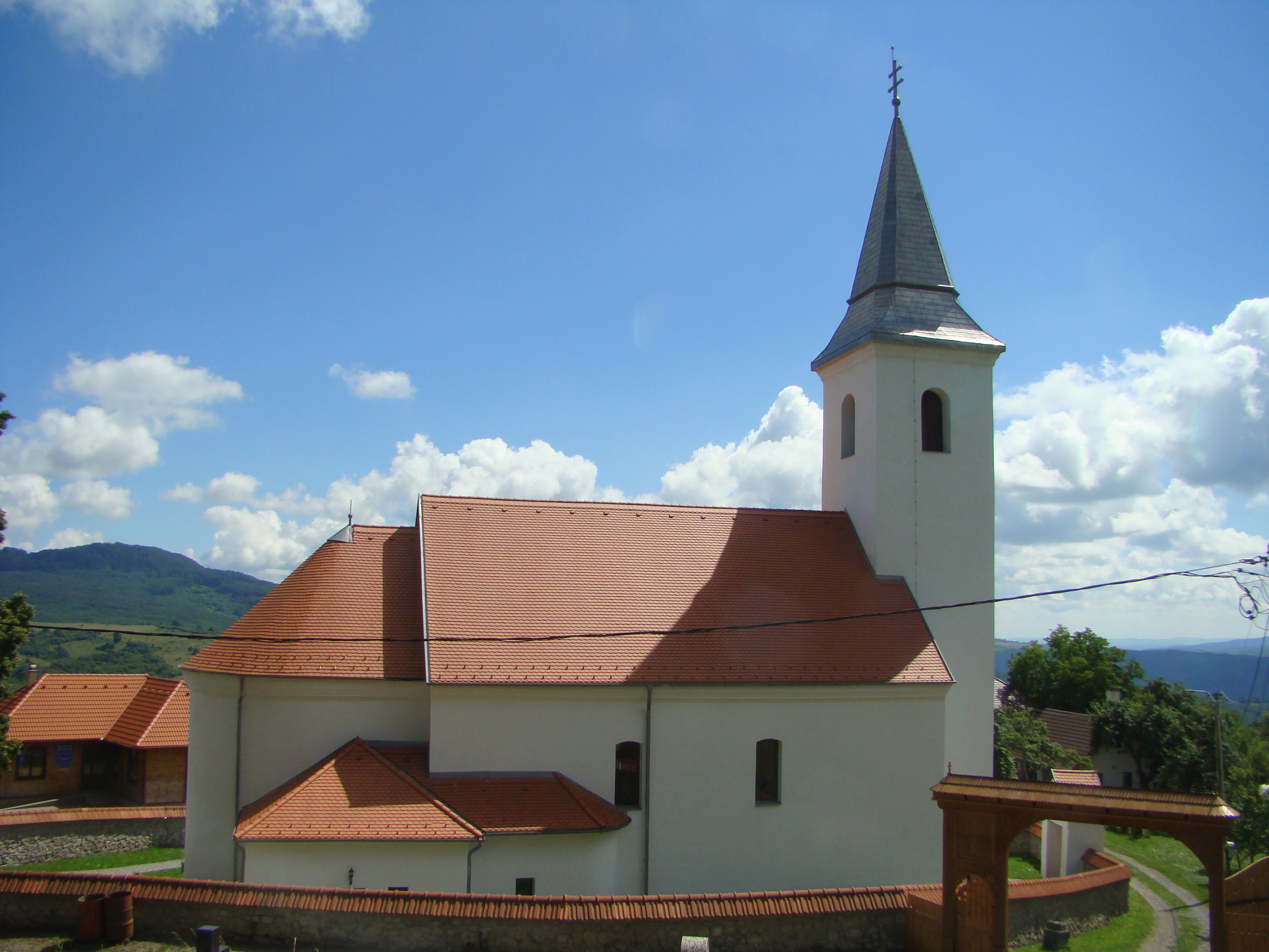 Roman Catholic church in Atia, Harghita County, Romania